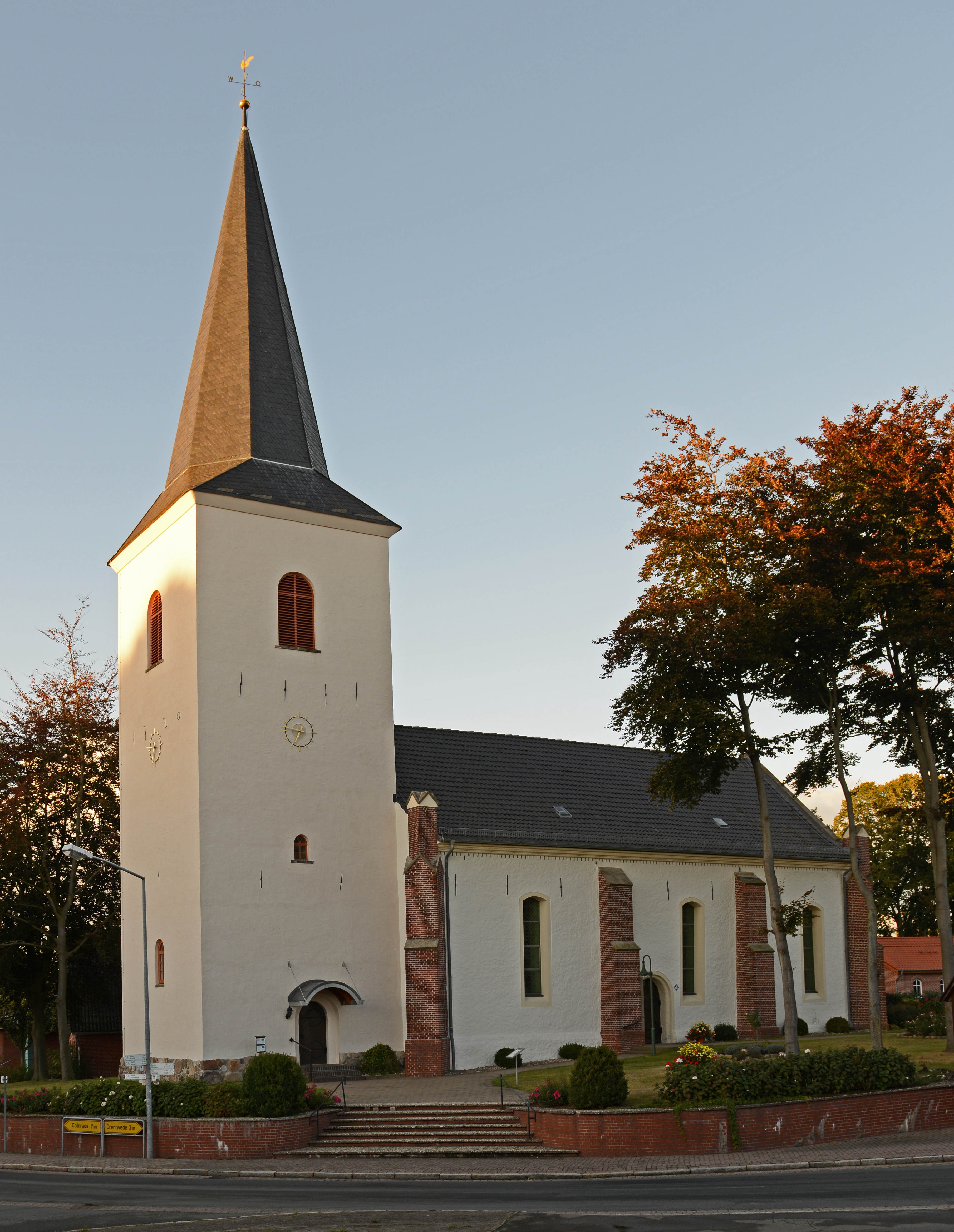 Heritage church in Heiligenloh, Twistringen, Lower Saxony, germany